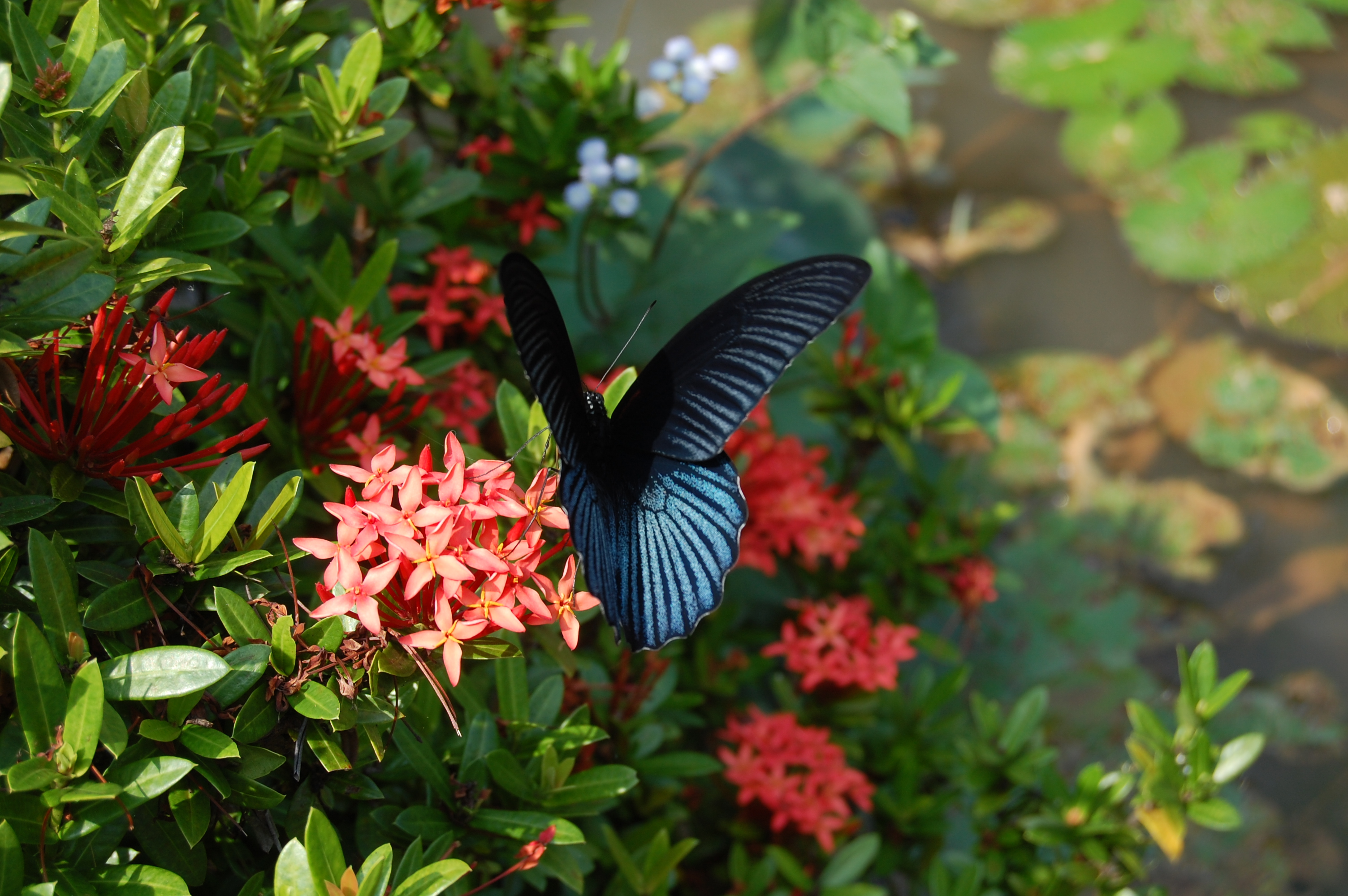 Papilio memnon on Ixora casei (Thailand)